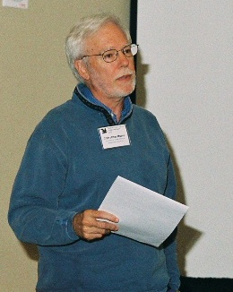 FLoC2006, ACL2 Panel on Grand Challenge Problems: J Strother Moore on his ideal and vision for ACL and software that works